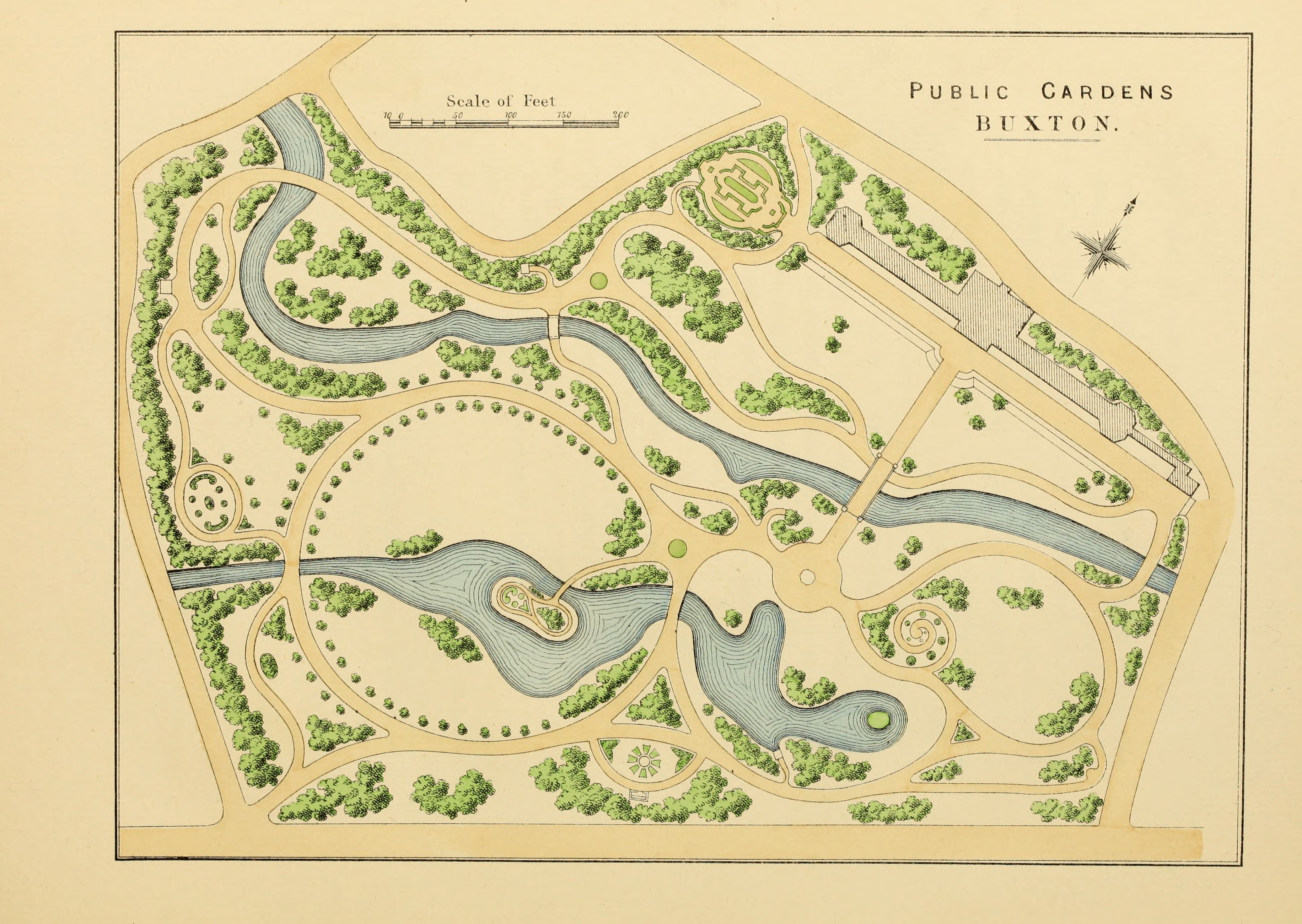 Title: The art and practice of landscape gardening Year: 1890 (1890s) Authors: Milner, Henry Ernest Subjects: Landscape architecture; Gardening Publisher: London : The author : Simpkin, Marshall, Hamilton, Kent Text Appearing Before Image: ' Text Appearing After Image: '